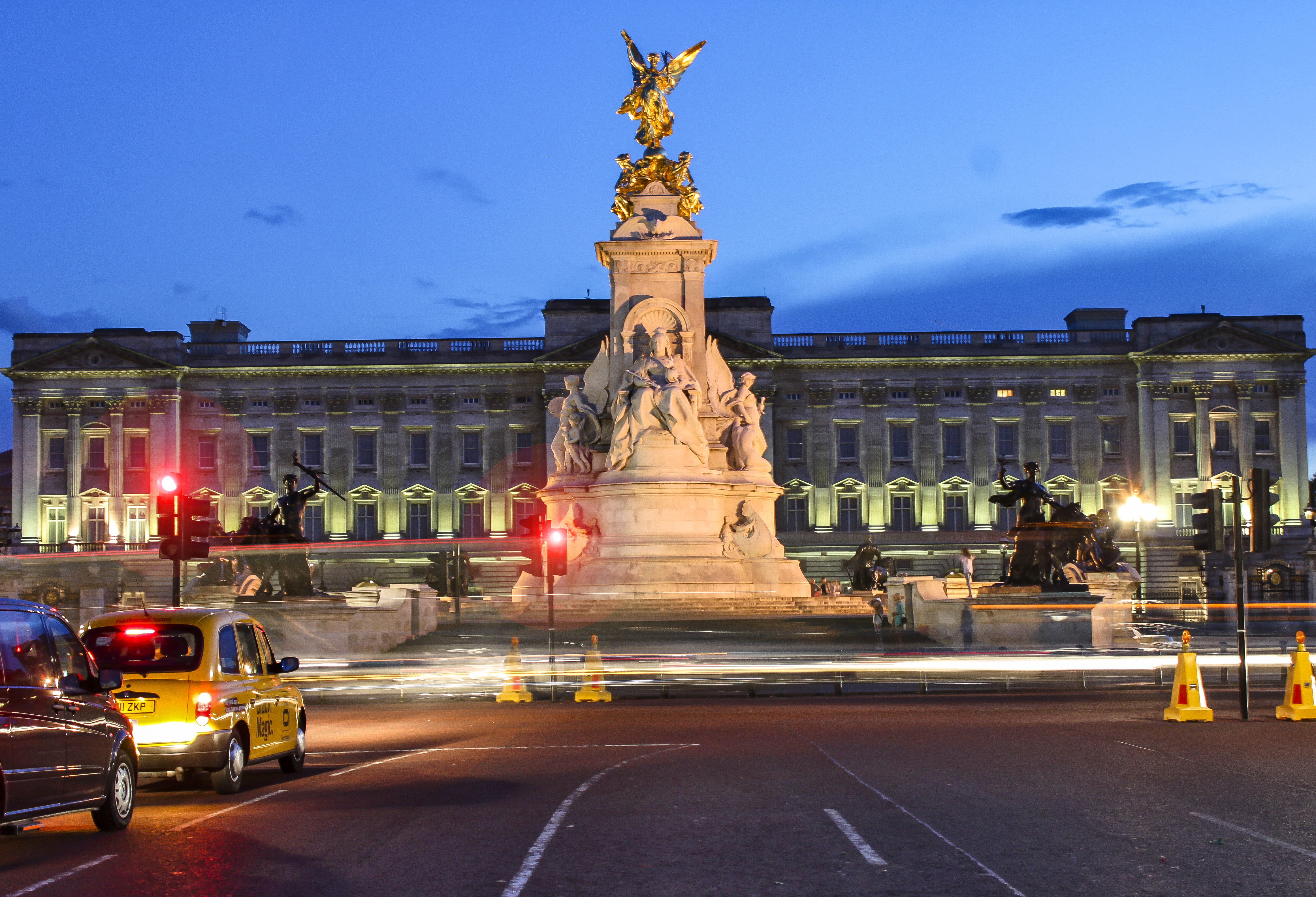 photo taken from The Mall